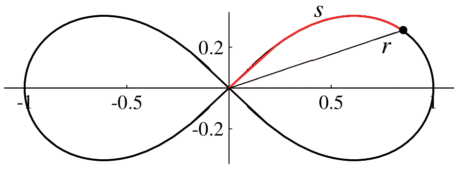 Arc of a lemniscate